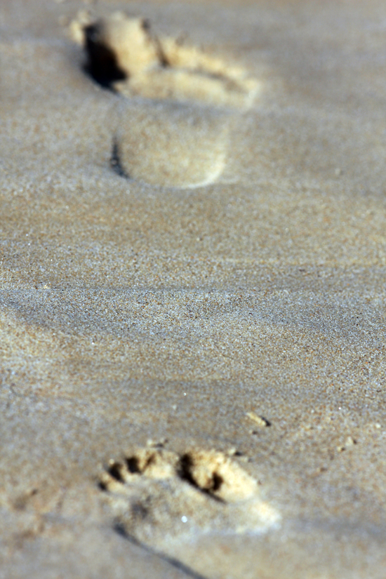 Big Foot